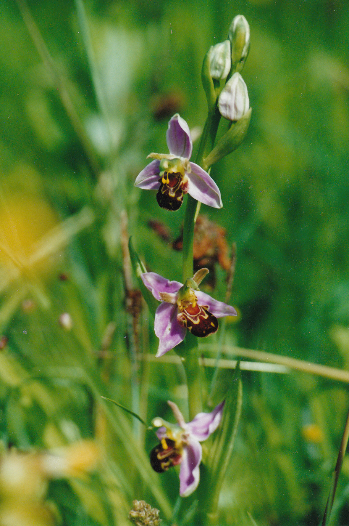 Bee Orchid (Ophrys apifera) at Netcott's Meadow near Nailsea, UK